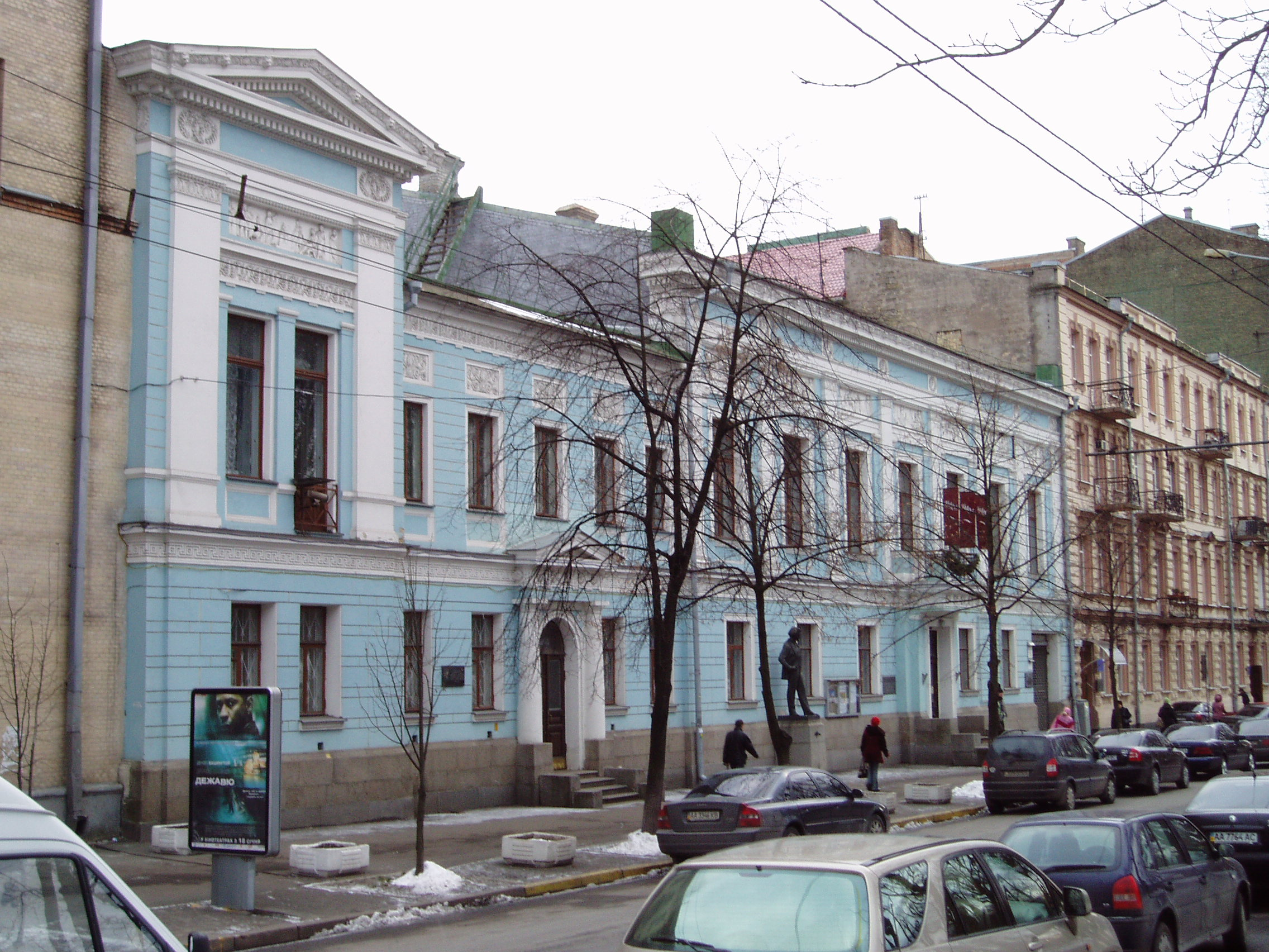 The building of the Museum of Fine Arts in Kyiv